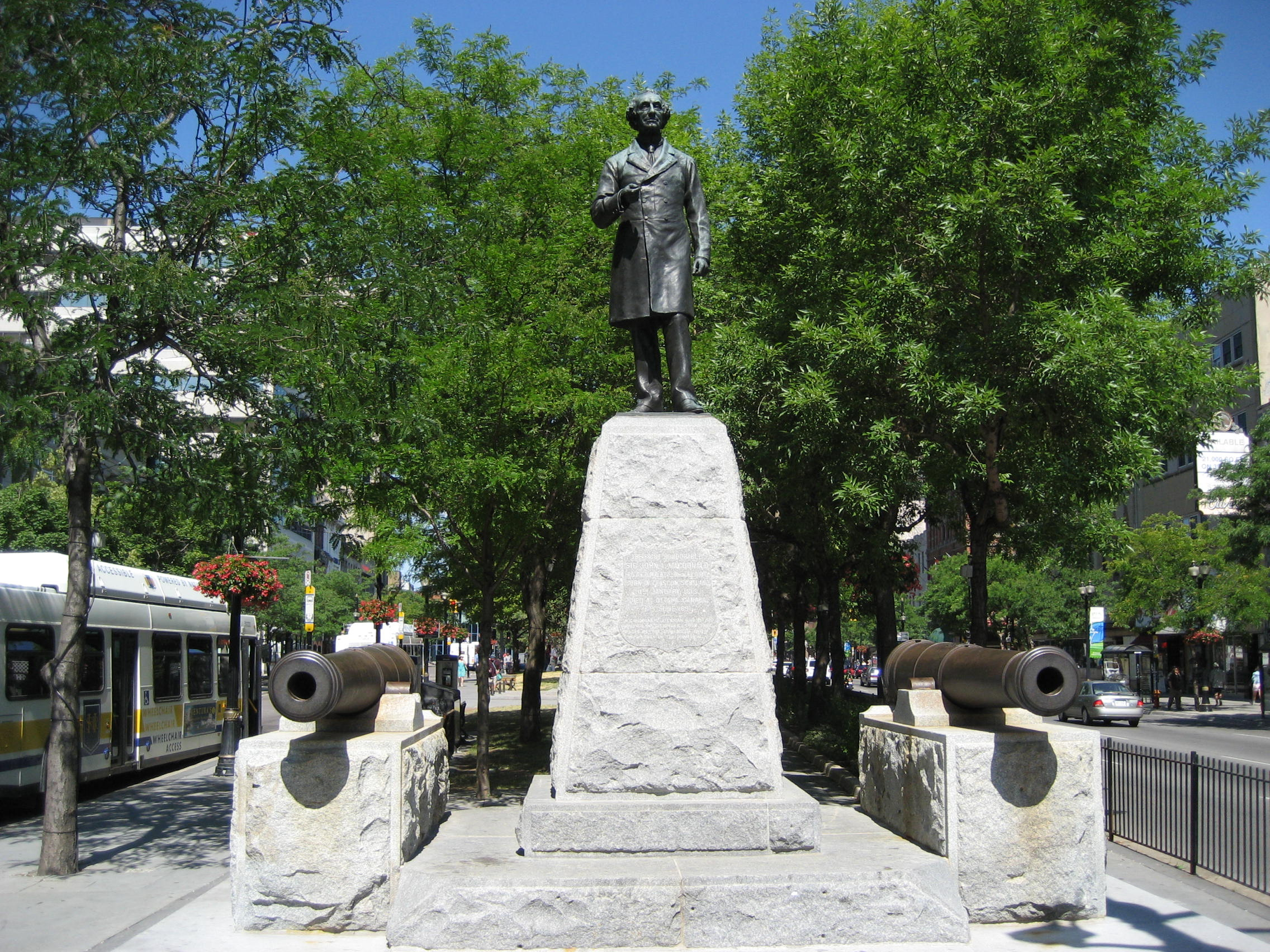 Sir John A. MacDonald statue, Gore Park, downtown Hamilton, Ontario